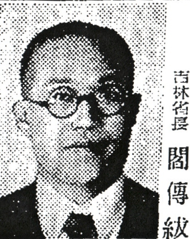 Yan Chuanfu (Yen Ch'uan-fu) (1896 - 1962)